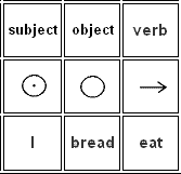 Table of word order subject-object-verb